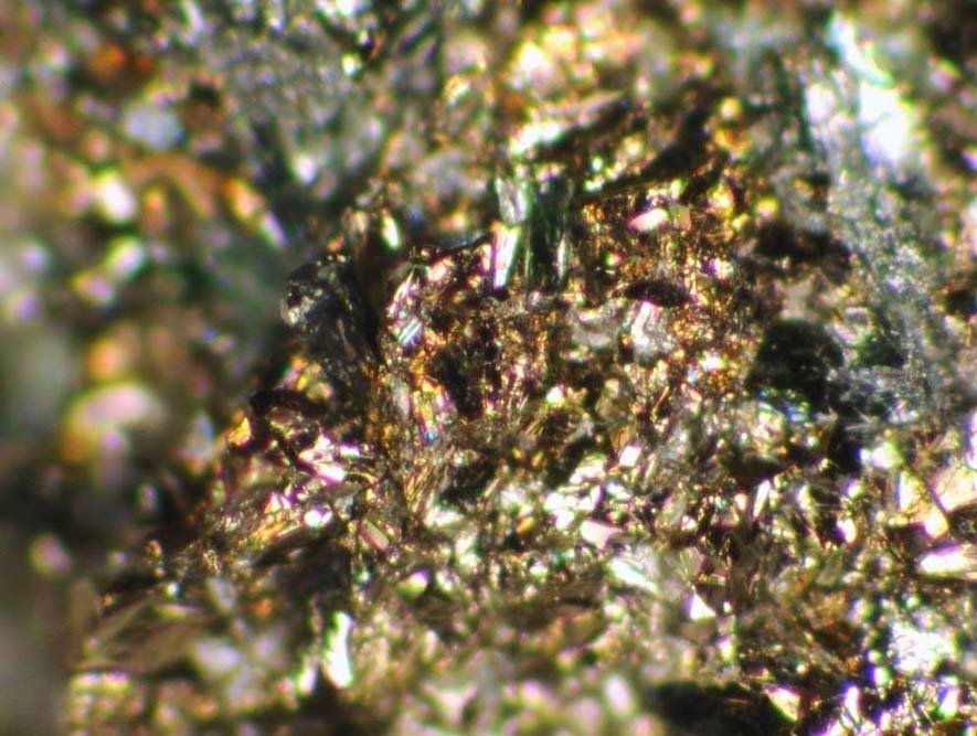 Bronze colored microcrystals of the very rare mineral djerfischerite from this famous Russian locality: Rasvumtchorr, Khibiny, Kola, Russian Federation. It is one of the very few sulphides containing potassium. Djerfisherite in appreciable crystals is very rare.